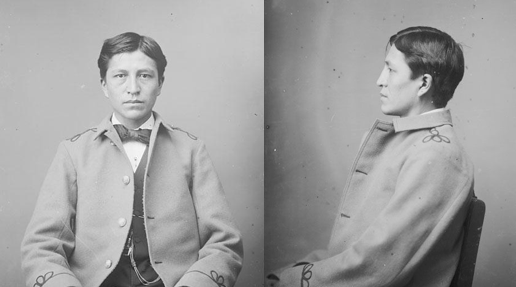 Luther Standing Bear, Brule, at Carlisle Indian School, Carlisle, PA. Two photos composite.